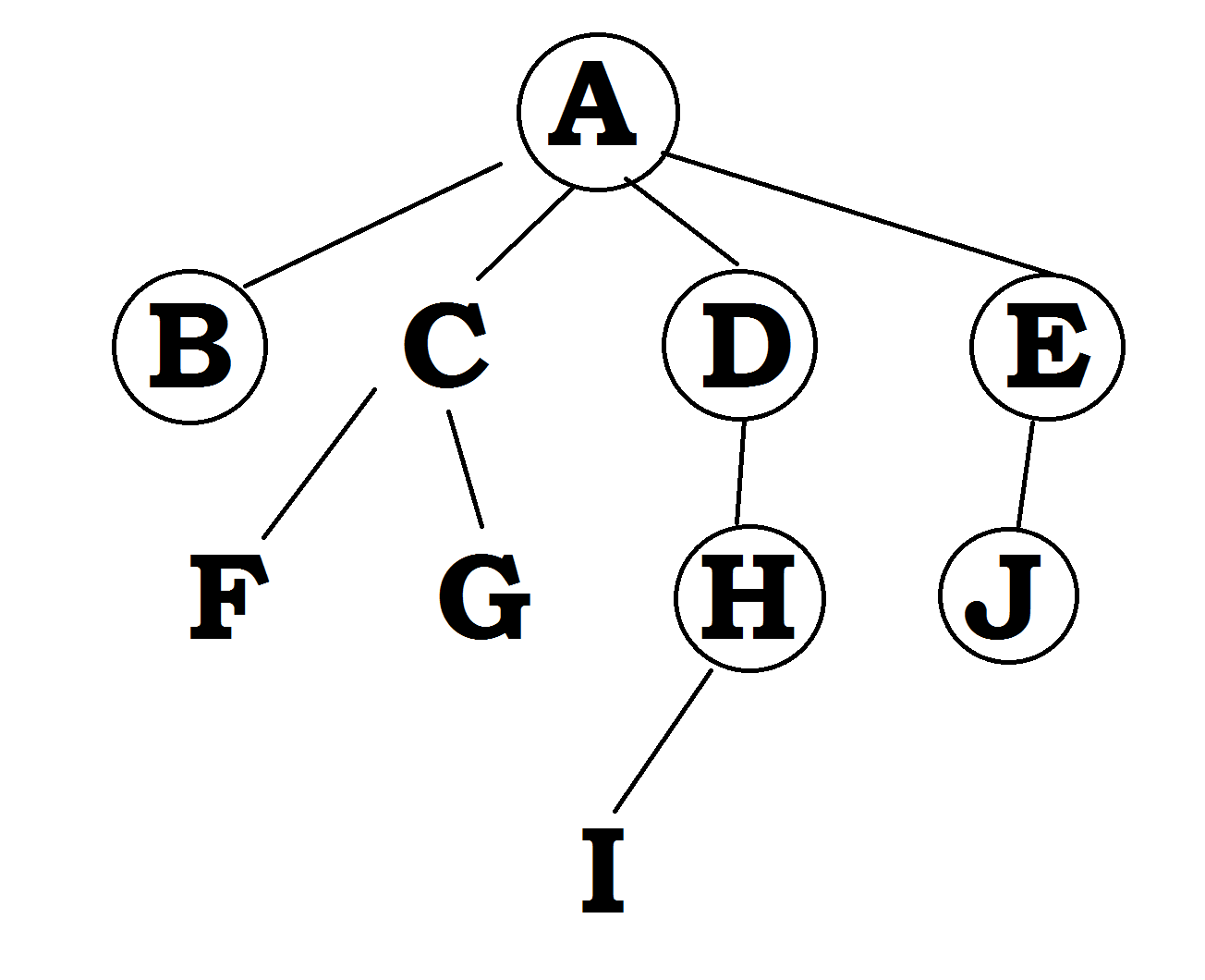 Another diagram illustrating an example of a legal stirp.